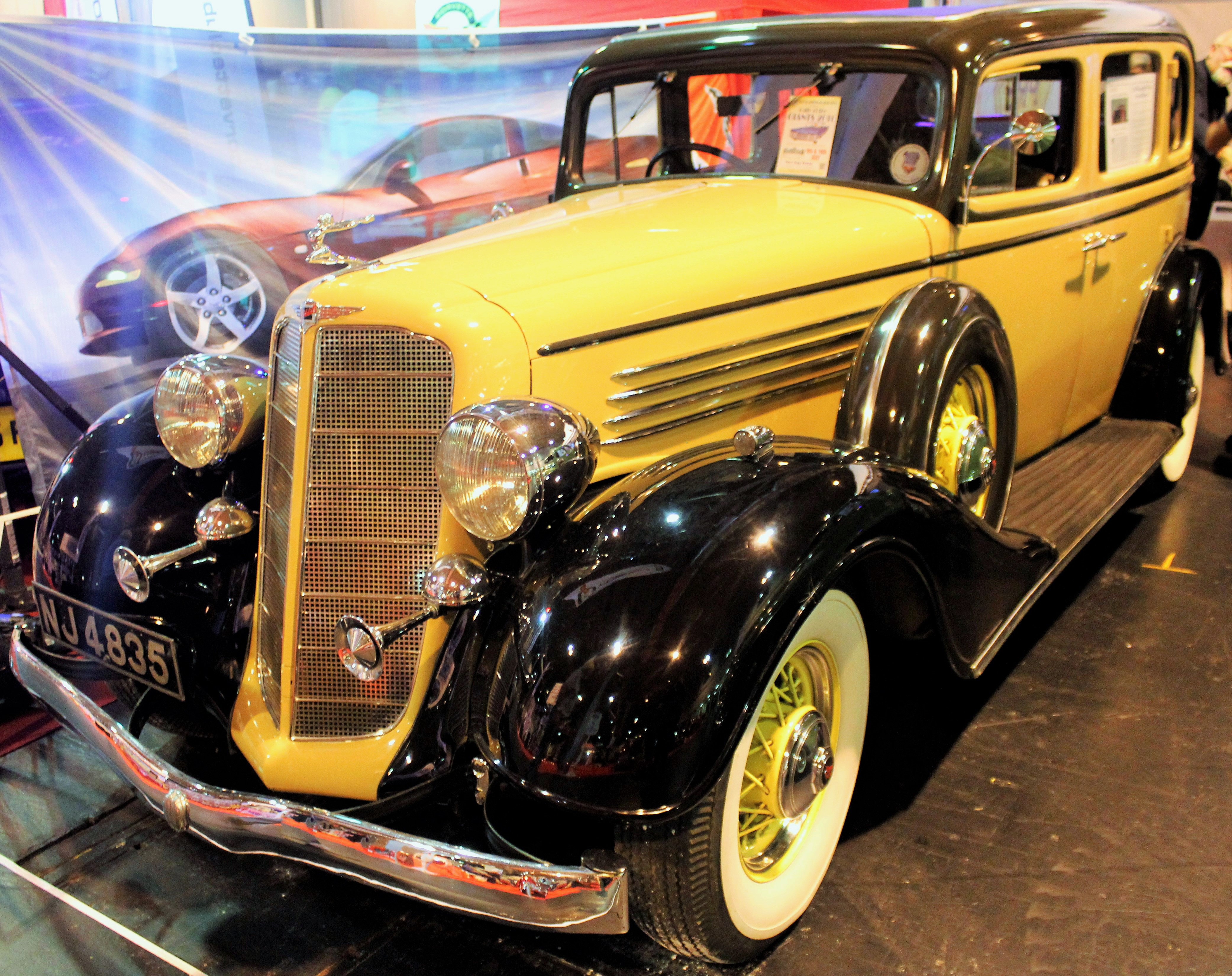 1934 Mclaughlin Buick series 50 model 57 NEC Classic car show 2015, Birmingham UK